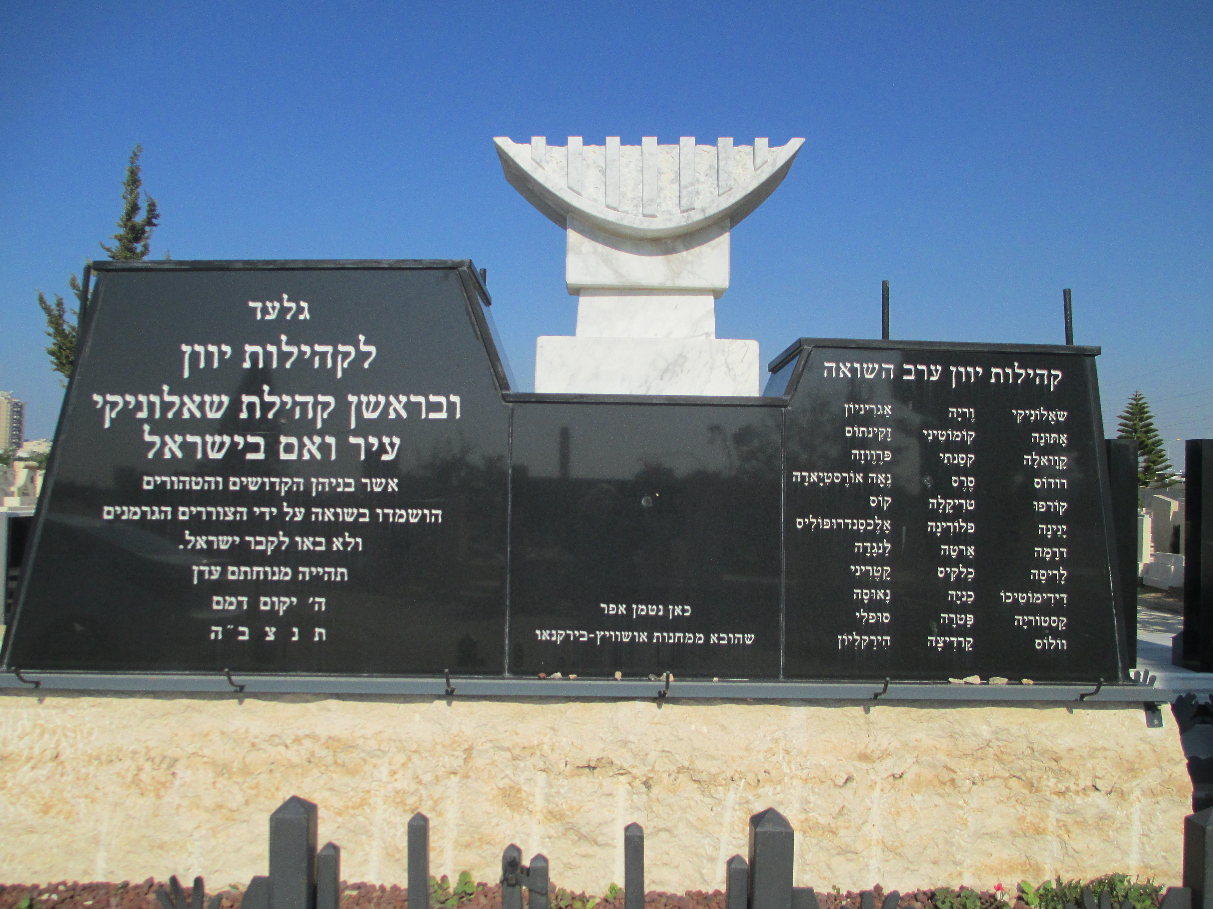 Greece jews holocaust memorial in Israel